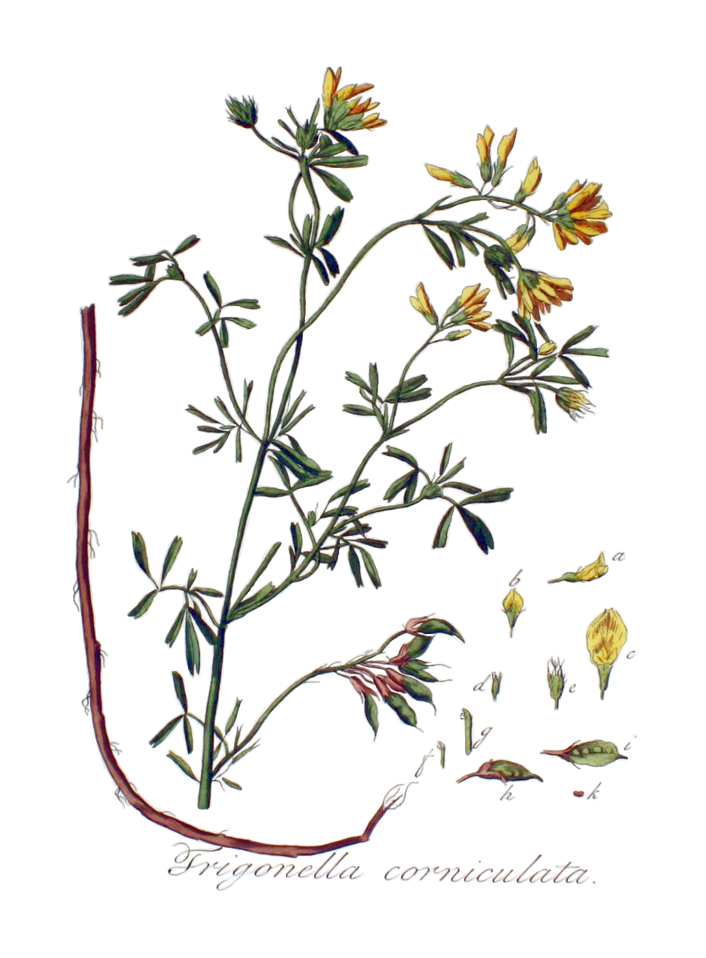 Illustration of Trigonella corniculata (L.) L.